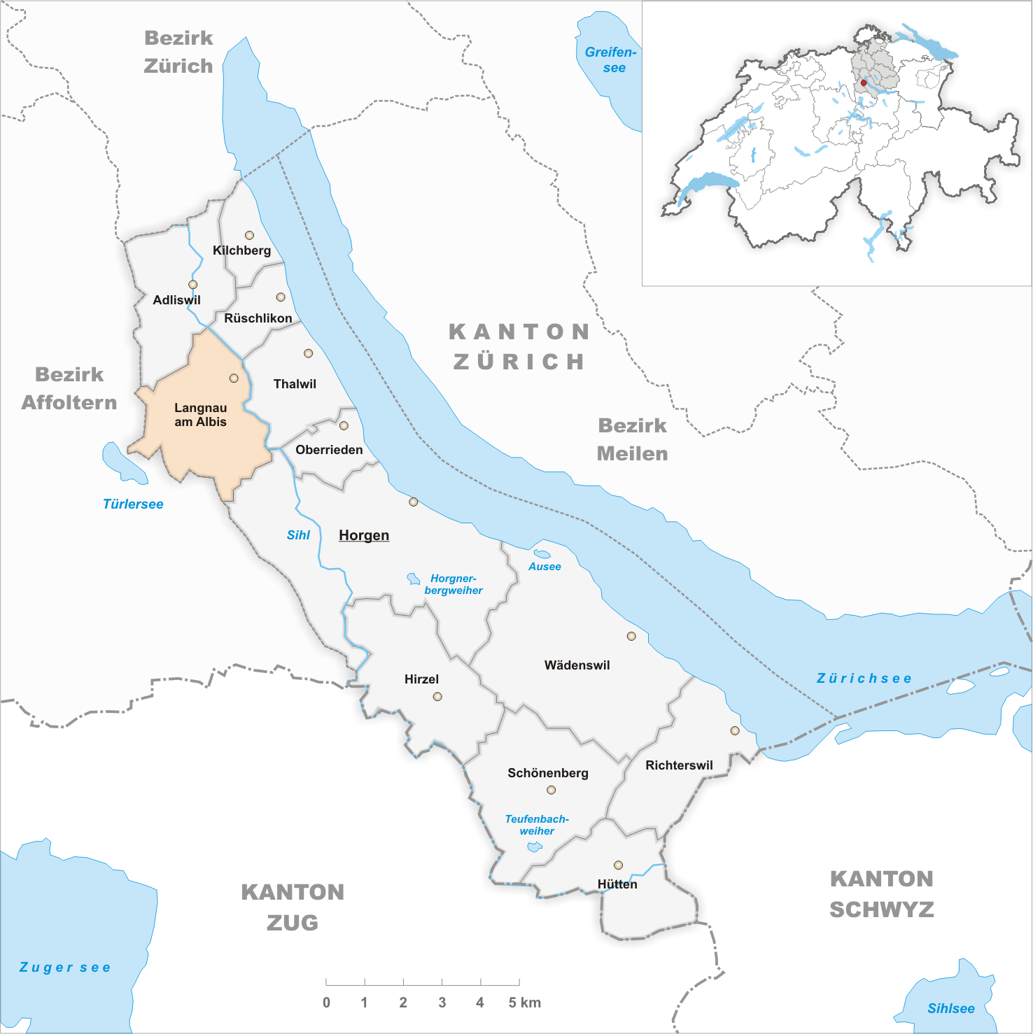 Municipality Langnau am Albis